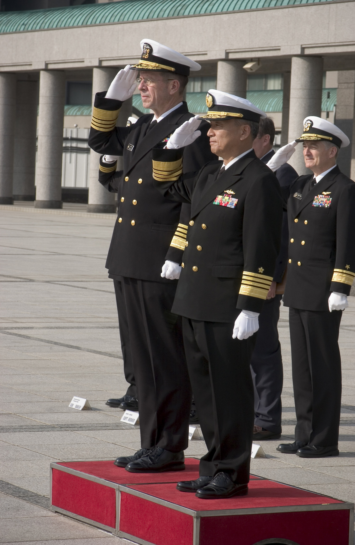 Tokyo, Japan (Jan. 16, 2006) - Chief of Naval Operations, Adm. Mike Mullen, and Japan Maritime Self Defense Force Chief of Staff, Adm. Takashi Saito salute as the anthems of the U.S. and Japan are played during a welcoming ceremony for Adm. Mullen. The ceremony was conducted at the Japan Defense Agency in Tokyo. U.S. Navy photo by Photographer’s Mate 2nd Class John L. Beeman (RELEASED)